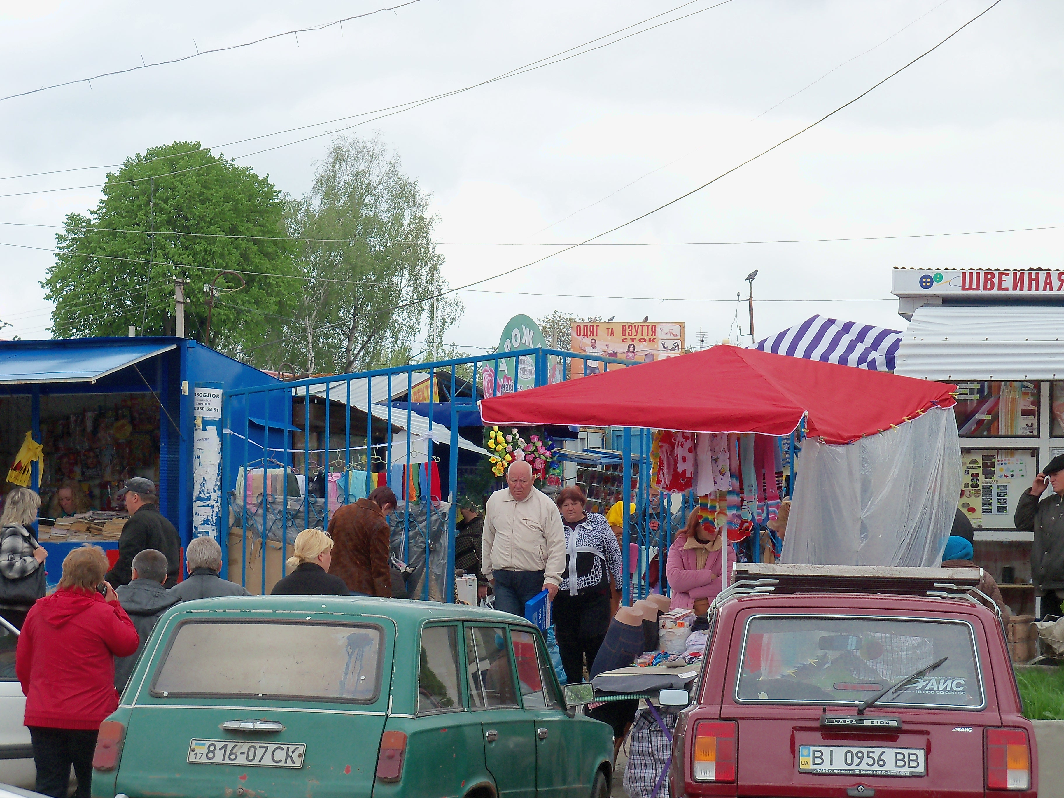 Novoivanivskyi market in Kremenchuk